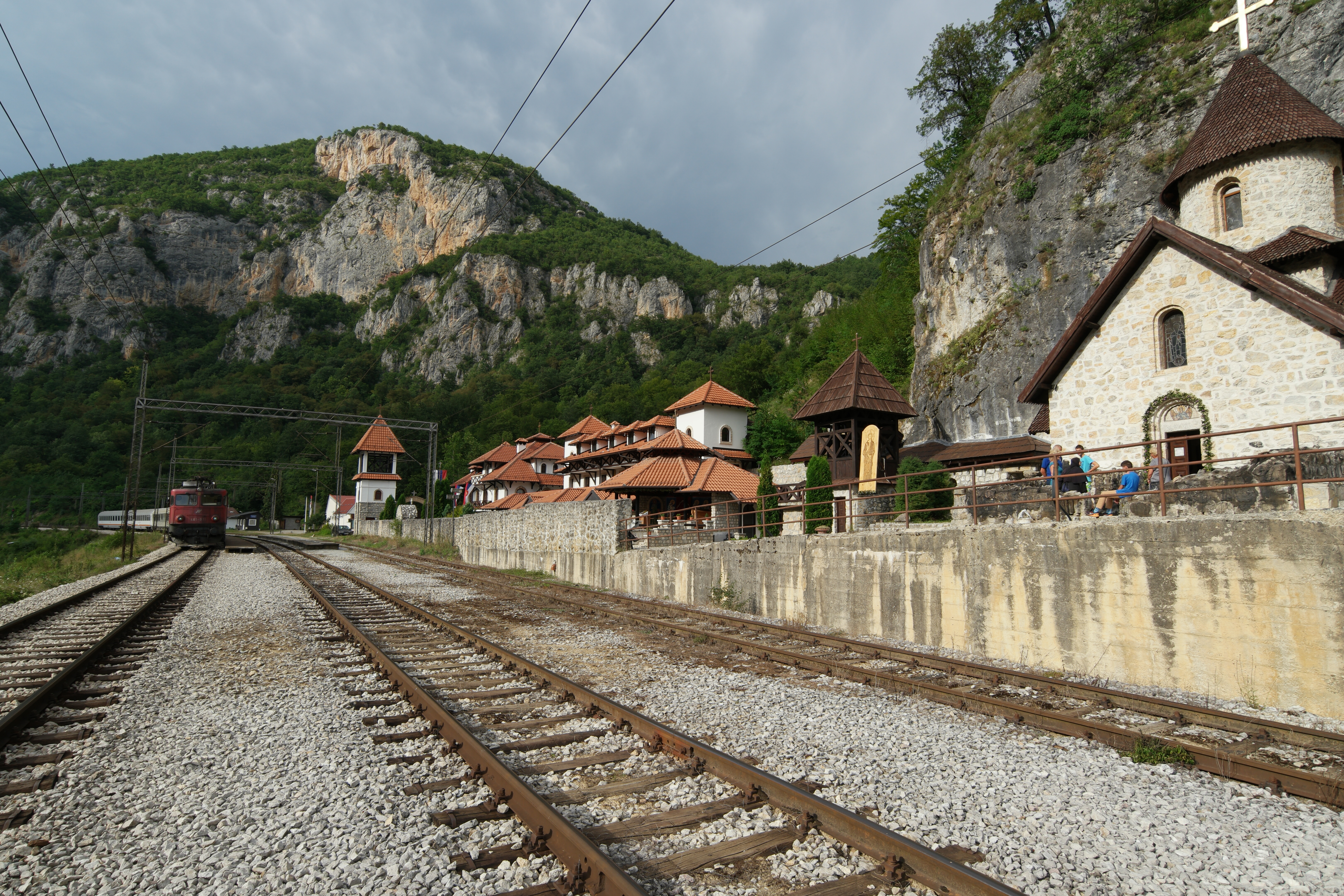 Vrbnica (Gostun) border crossing Serbia-Montenegro